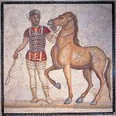 Pavement mosaic with a circus charioteer of the albata (white) faction. Roman artwork, first half of the 3rd century CE. From the Villa dei Severi at Baccano, 16 miles from the Via Appia.